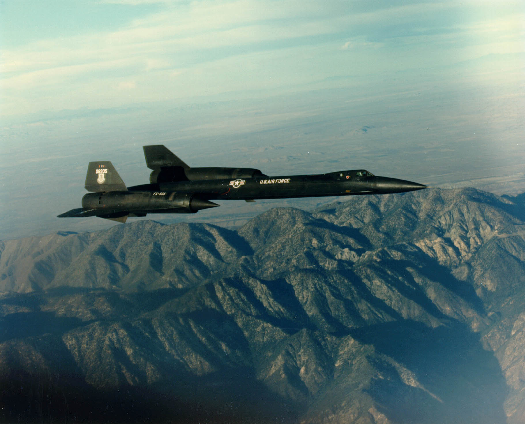 Conceived as a triple-sonic interceptor aircraft, the YF-12 had all of the blazing performance of its more famous sister aircraft, the SR-71 Blackbird. On May 1, 1965, the YF-12 set no less than nine world absolute speed and altitude records at Edwards Air Force Base. Among these was a sustained altitude of 80,257 feet and a speed of 2,070 mph. In spite of this performance and operational potential, the aircraft never entered production.